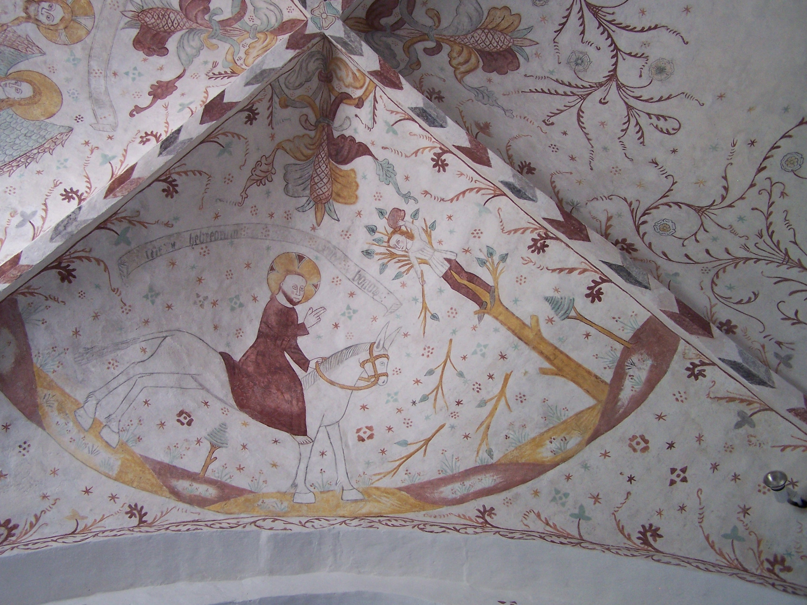 Elmelunde Church Frescos in ceiling